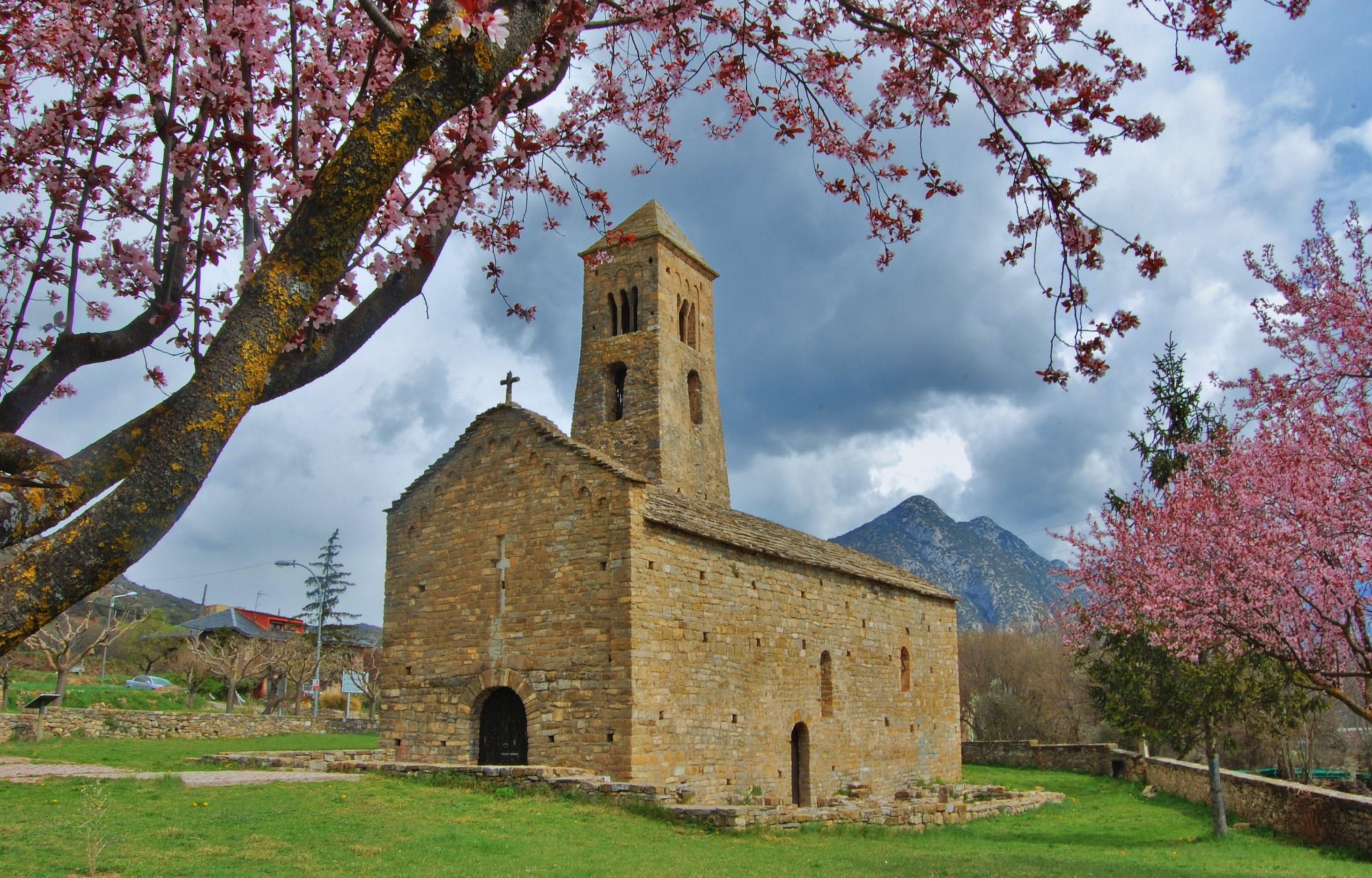 Church of Sant Climent de Coll de Nargó (Alt Urgell, Catalonia, Spain).